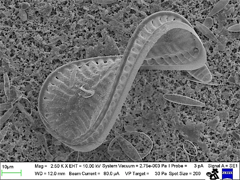 Electron scanning microscope image of the diatom Surirella Spiralis - sharpened version of this image